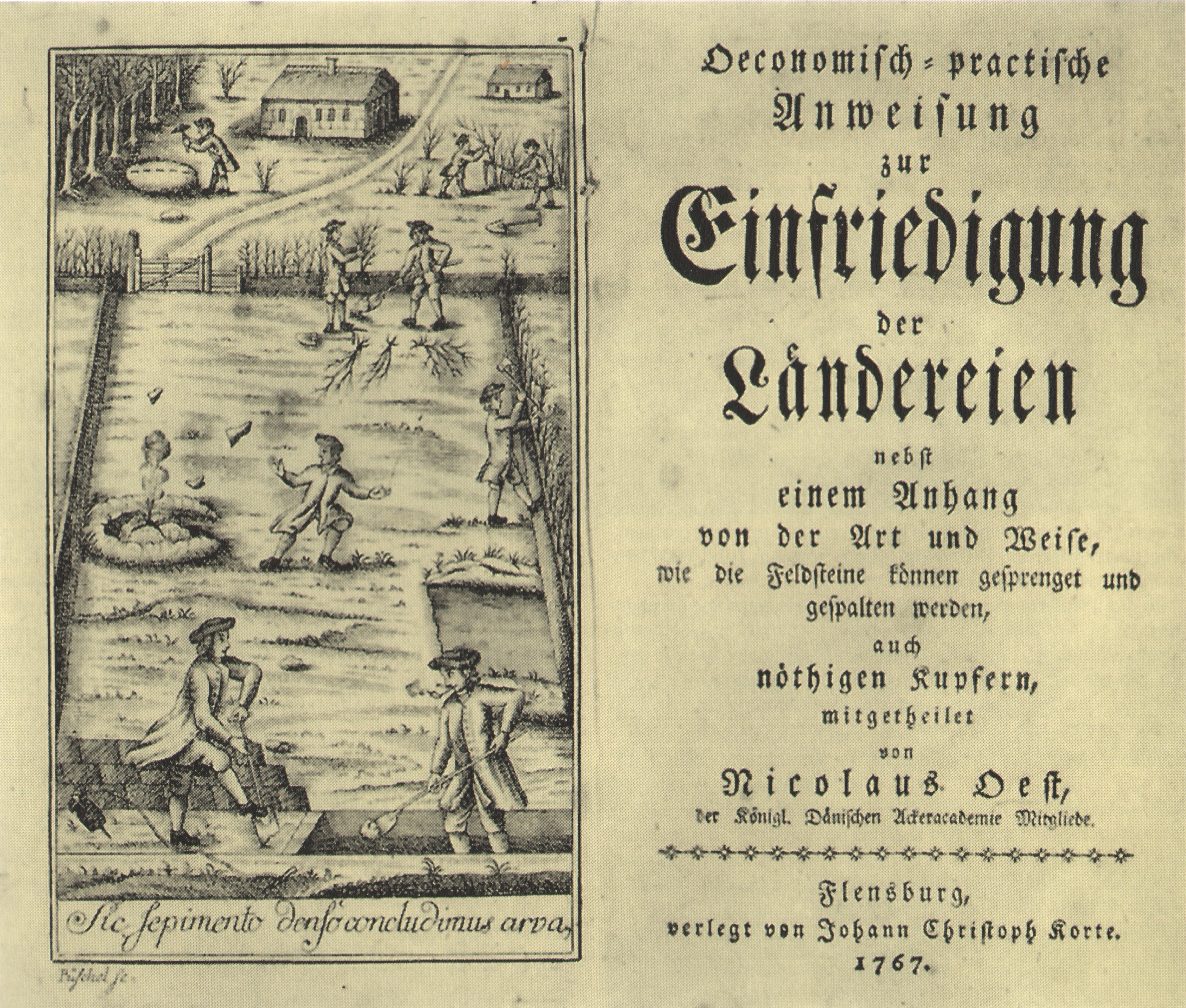 Hedge laying in northern Germany after Nicolaus Oest: Oeconomisch-practische Anweisung der Einfriedigung der Ländereien. Flensburg 1767